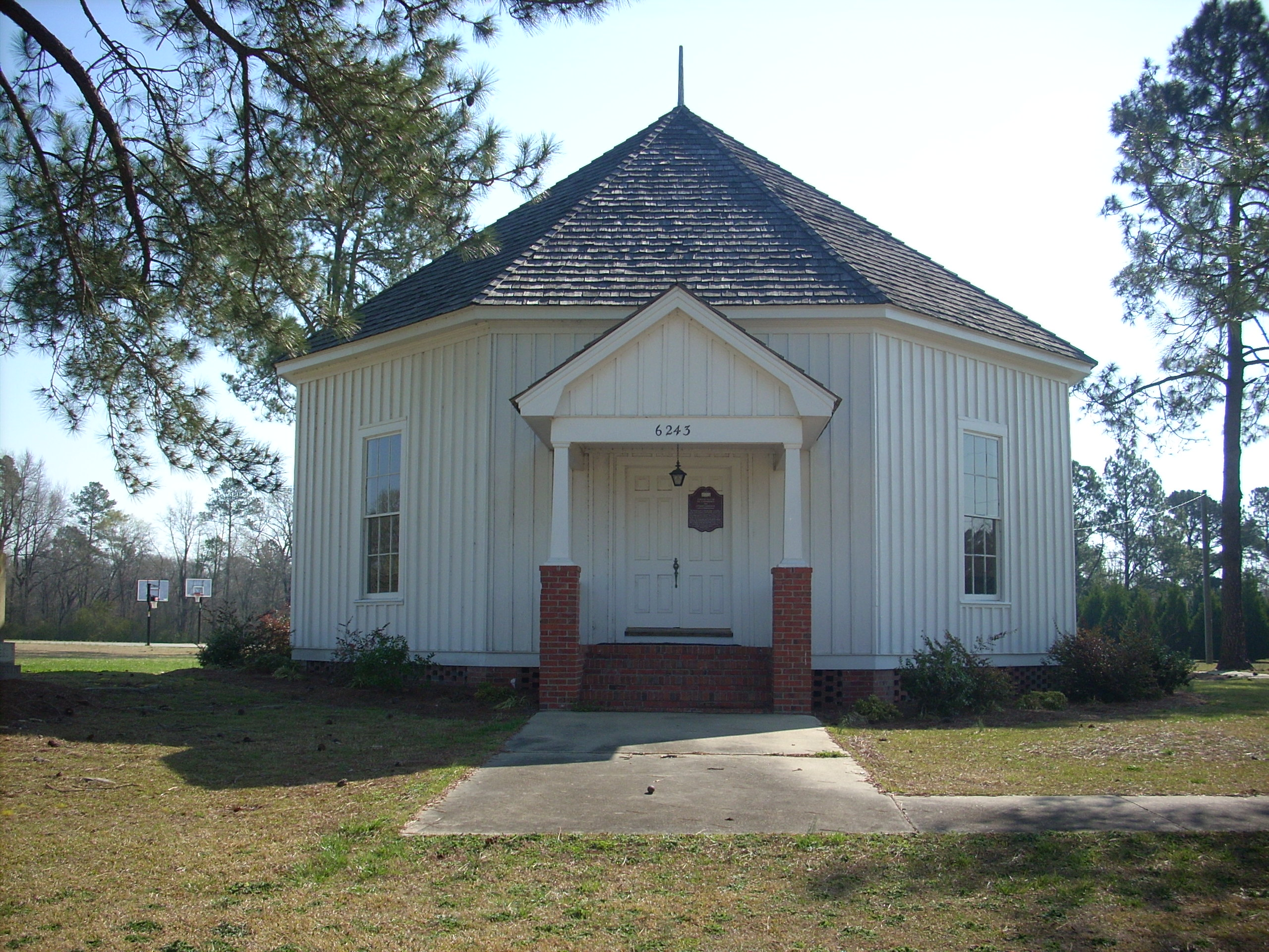 Octagon Tabernacle in Falcon, North Carolina.